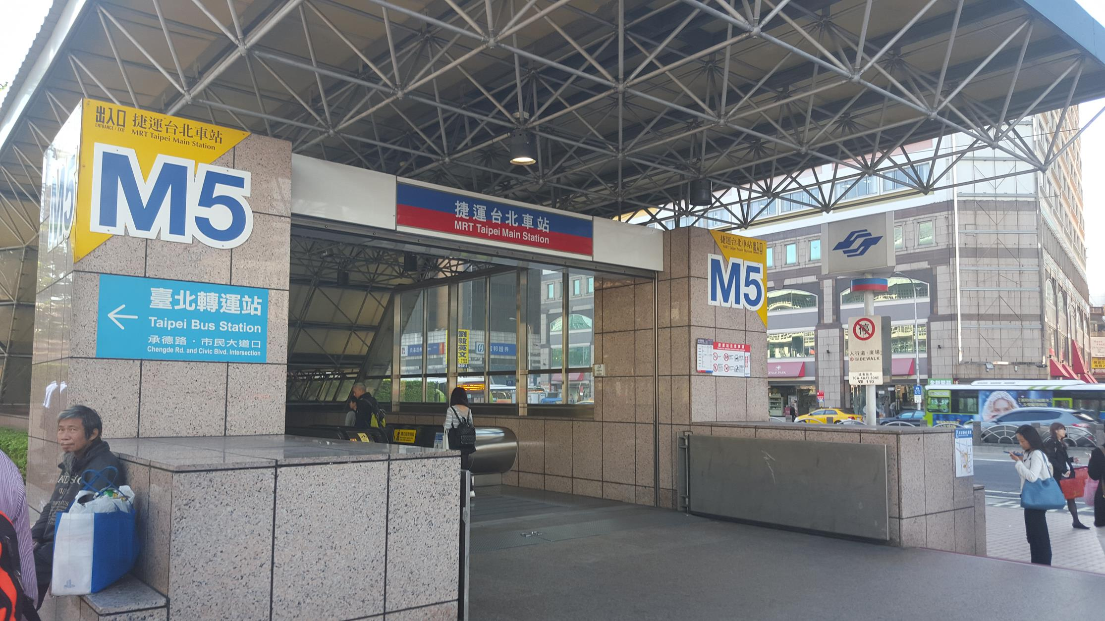 Exit M5 of Taipei Station, Taipei MRT.